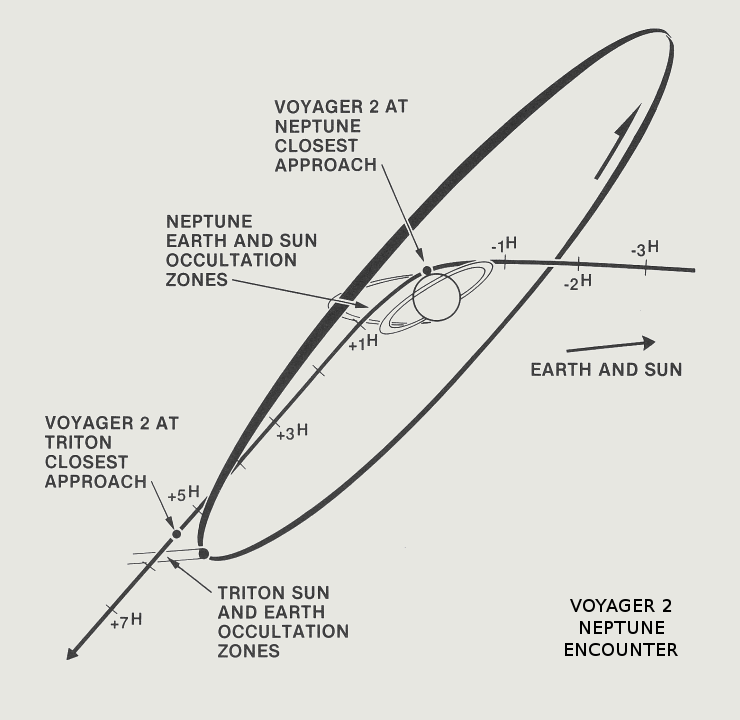 Voyager 2 trajectory in Neptune System, August 25, 1989.